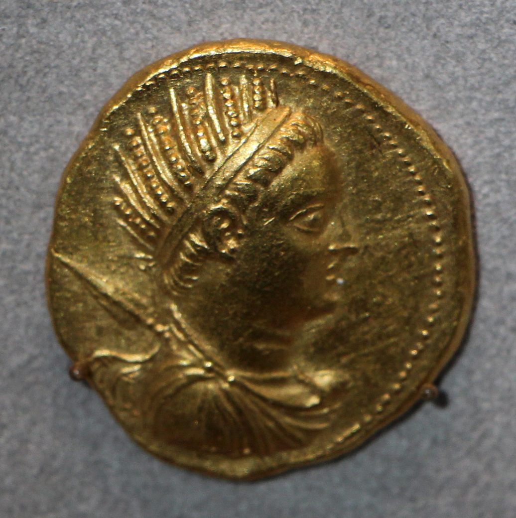 An ancient Greek octodrachm gold coin in the Altes Museum, Berlin, depicting the Hellenistic Ptolemaic Pharaoh Ptolemy V wearing a radiant crown; minted in 204-203 BC at Alexandria, Egypt.